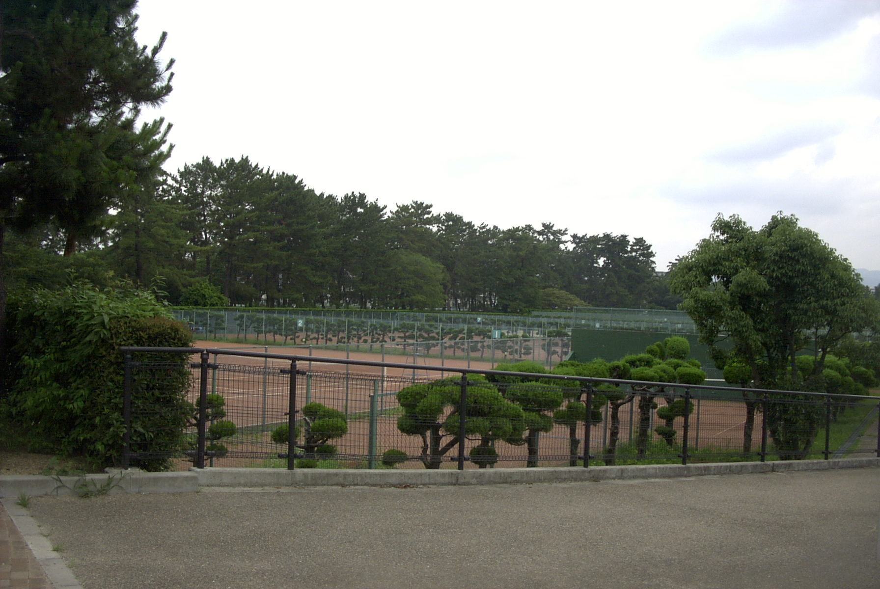 Tennis courts in Ryokuchi Koen, Osaka, surrounded by sculpted trees. Photo taken by me on July 1, 2006.